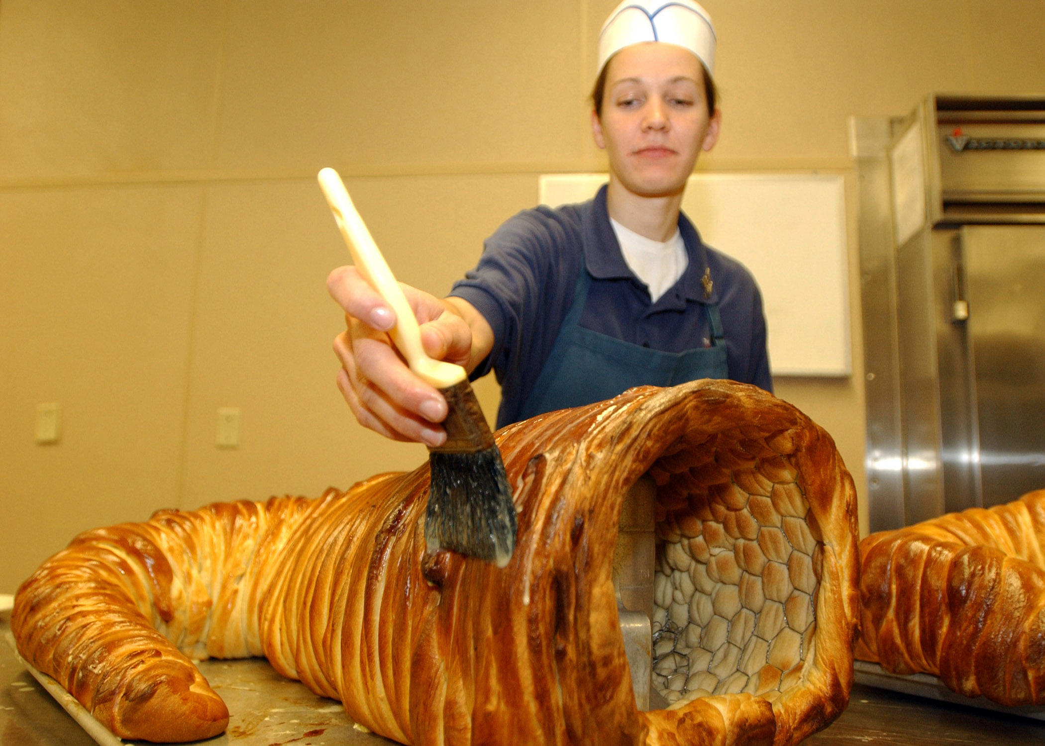 Jacksonville, Fla. (Nov. 22, 2005) - Culinary Specialist 2nd Class Linda Ostler prepares a cornucopia for the Thanksgiving meal at the galley on board Naval Air Station Jacksonville, Fla. U.S. Navy photo by Photographer's Mate 2nd Class Jamar X Perry (RELEASED)